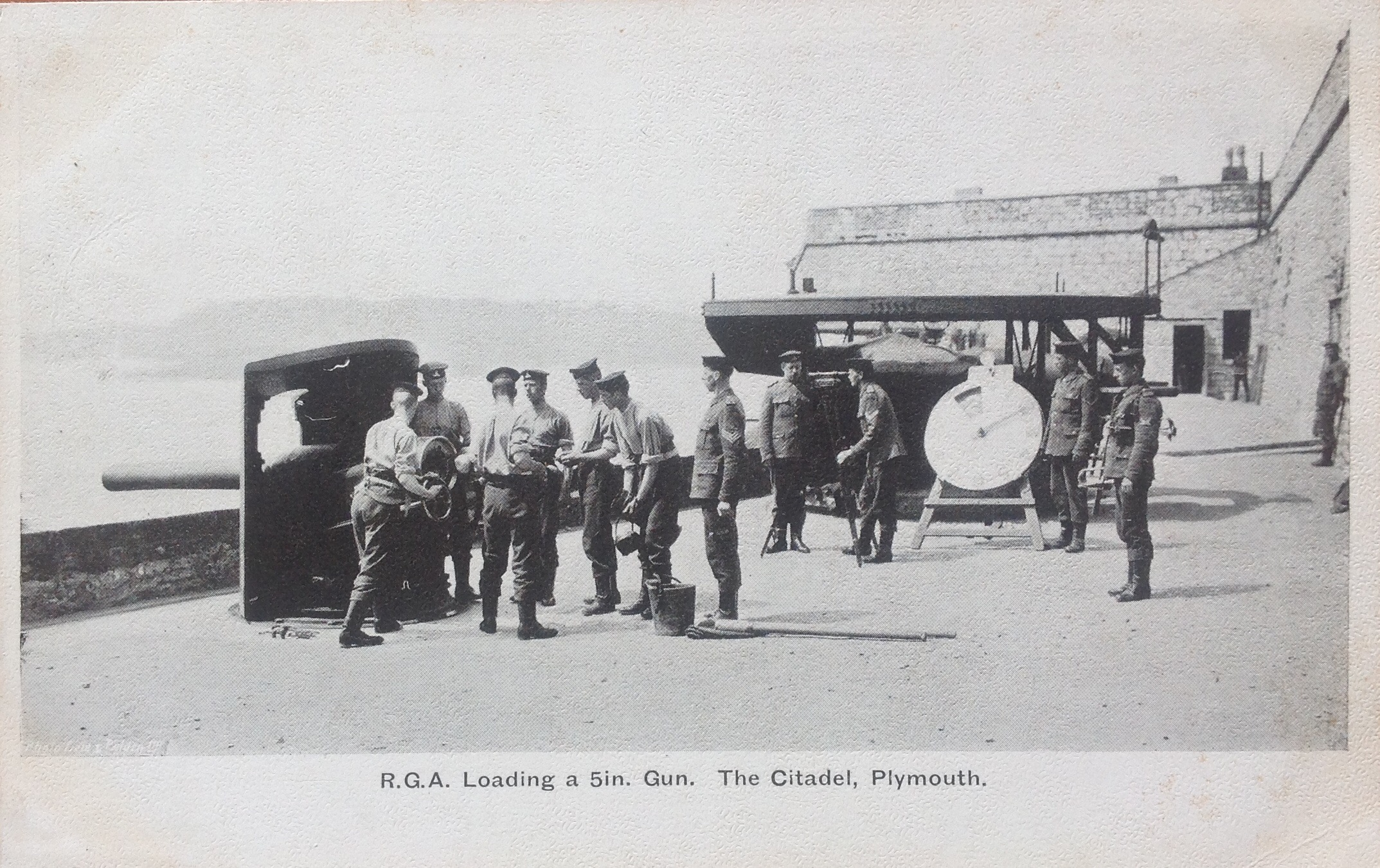 Gun drill with a 5-inch BL gun by the Royal Garrison Artillery, Royal Citadel, Plymouth. Published by Gale & Polden, c1905